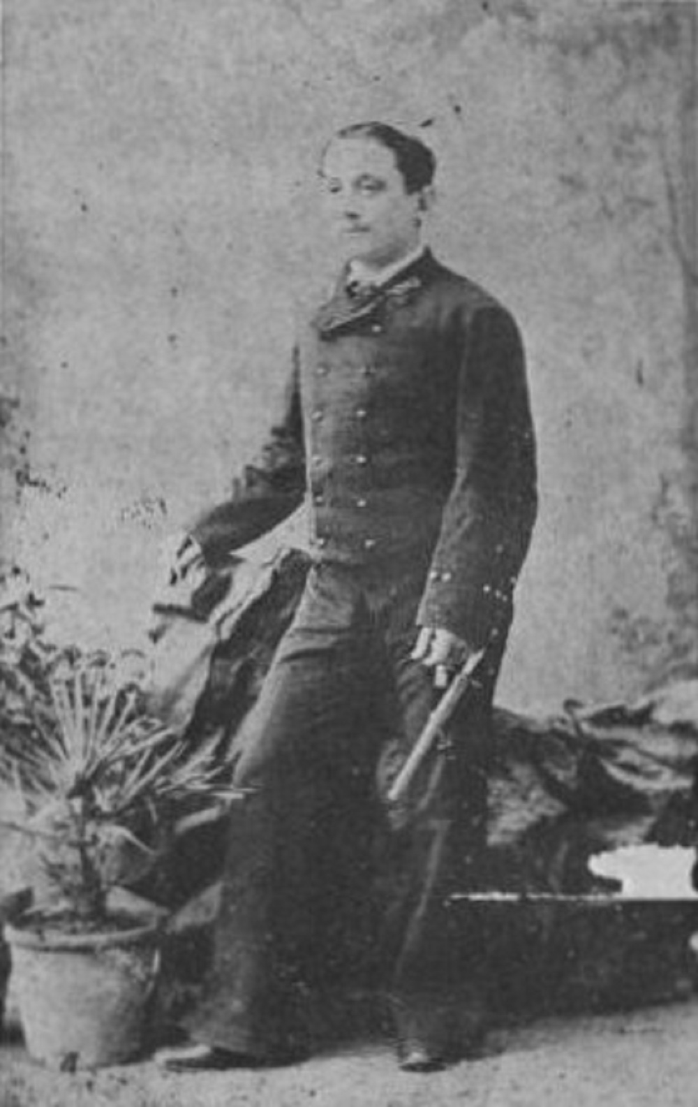 Robert Napuuako Boyd in Livorno, Italy, c. 1884, in his Royal Naval Academy uniform.